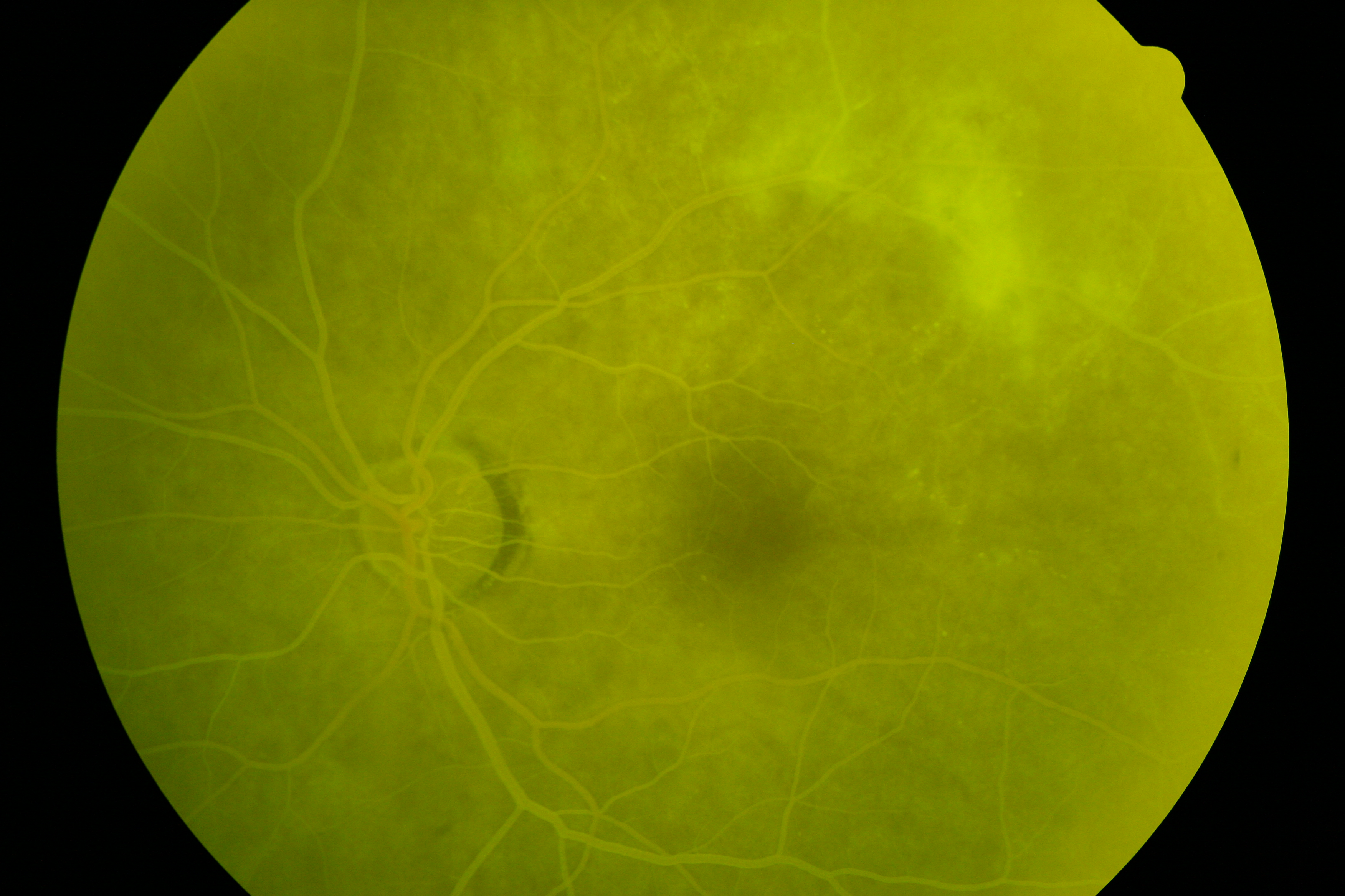 angiograph